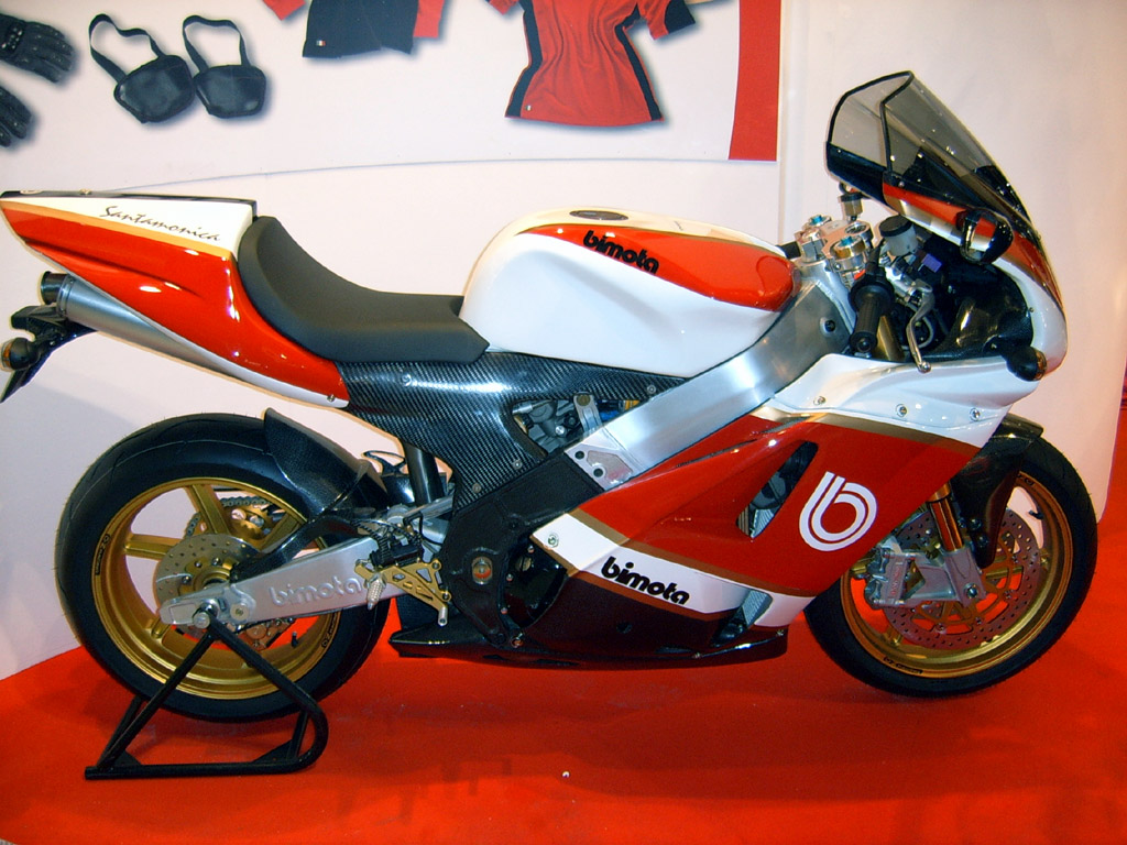 Bimota SB8K Santamonica at Milan 2006 bike expo